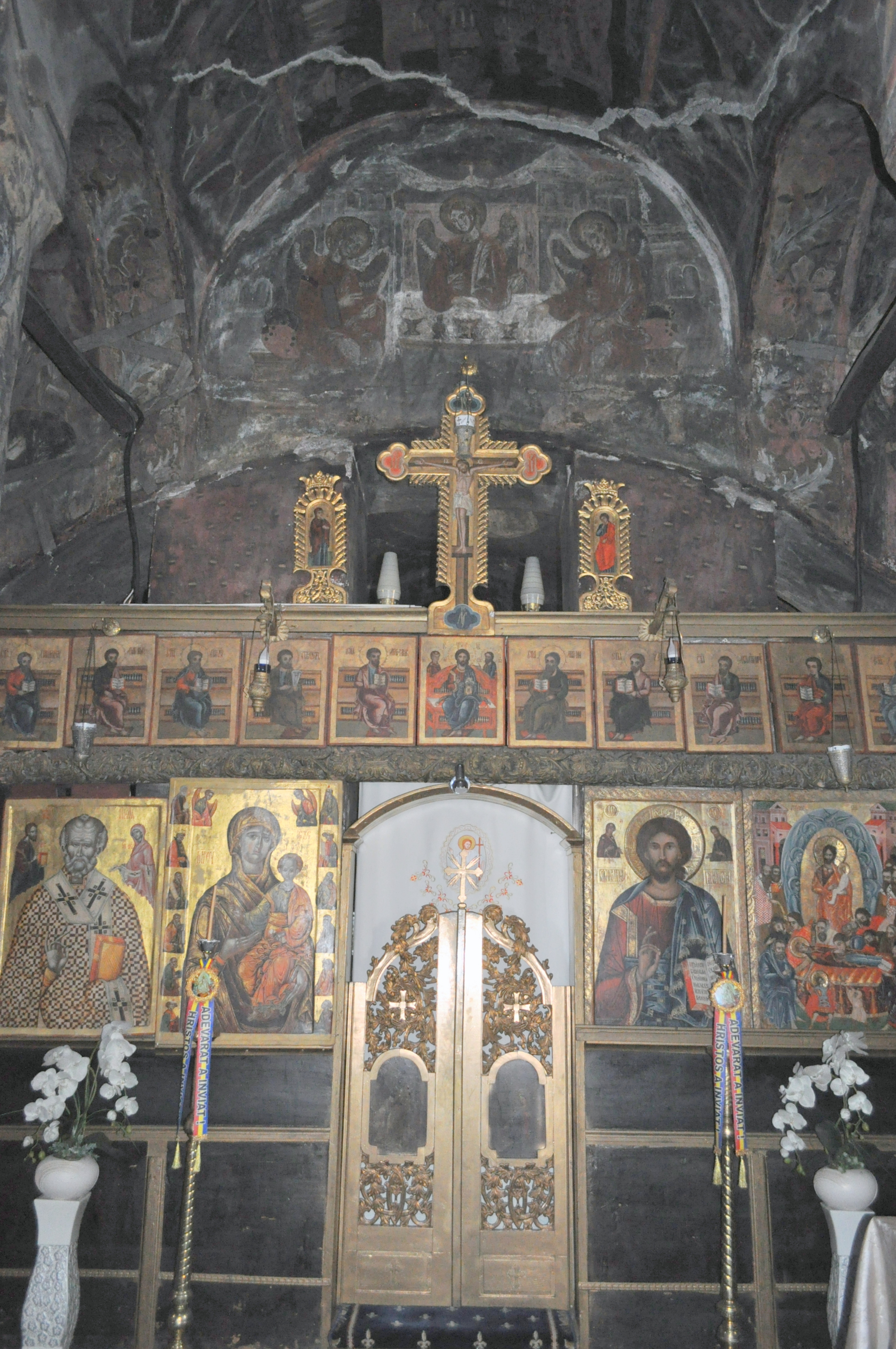 Saint Nicholas church in Hunedoara, Hunedoara county, Romania